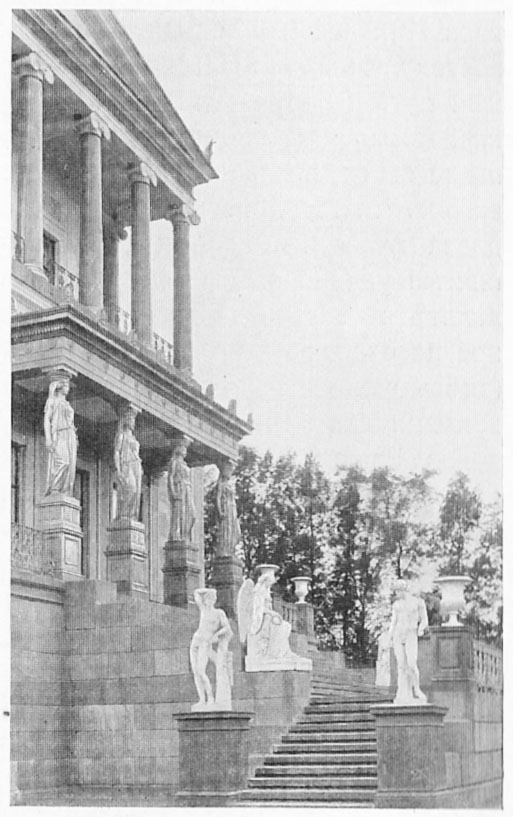 Belvedere ladder. Meadow park in Peterhof.